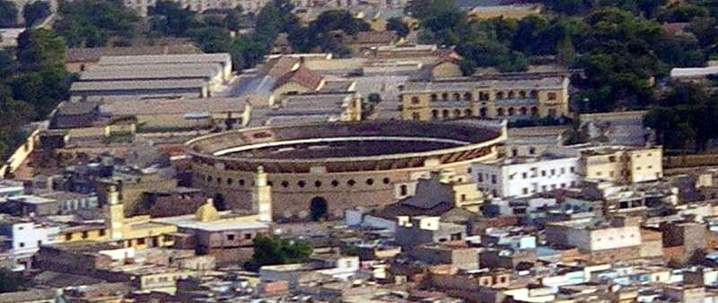 Arenas of Oran